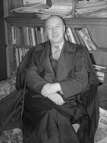 Title: Edwin J. Pratt, Place: TORONTO (ONT.)